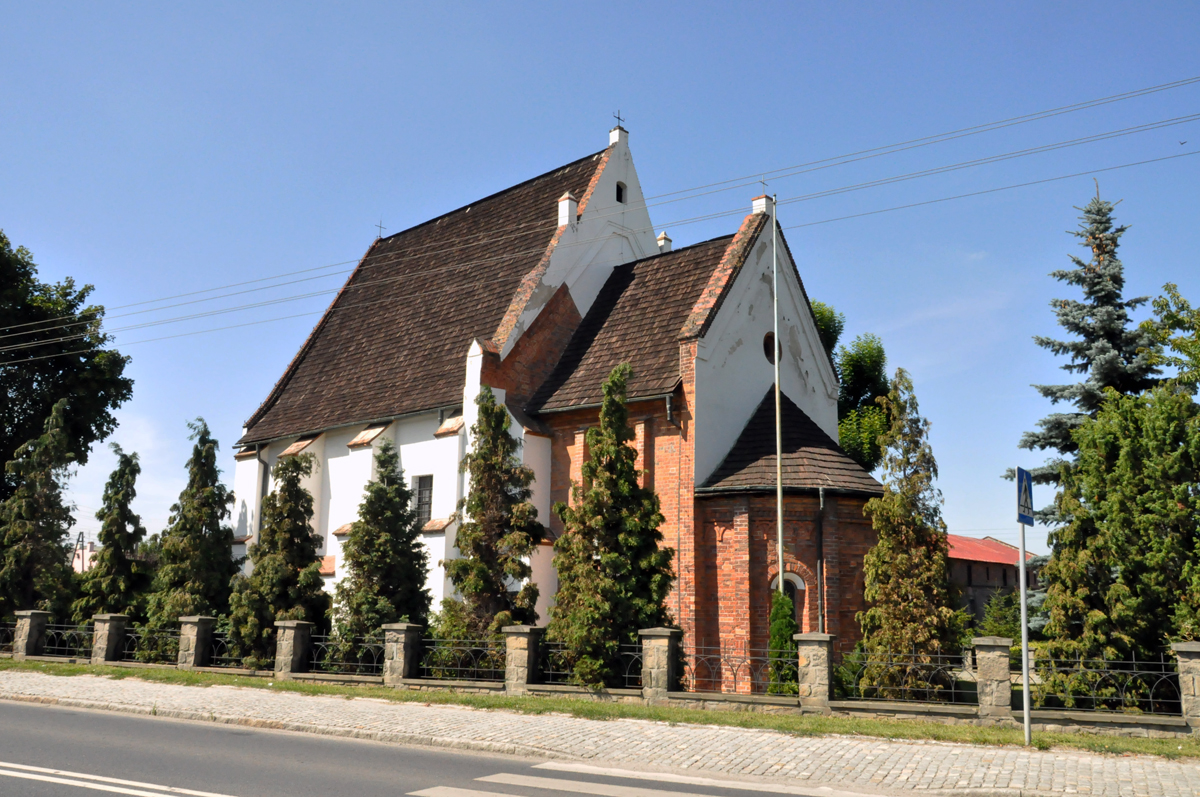 Środa Śląska - church of the Nativity of Virgin Mary